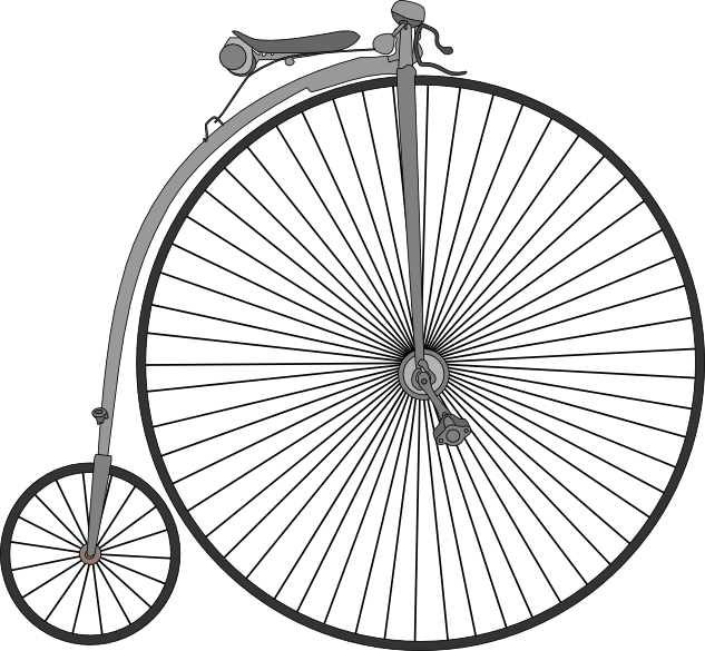 Velocipede.